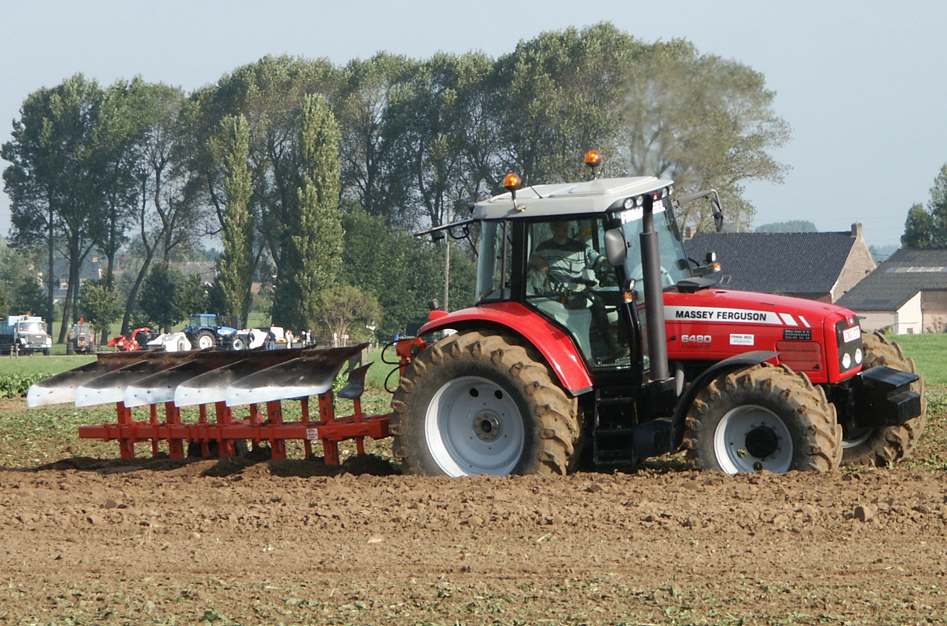 Massey Ferguson 6480 Dynashift ploughing at Werktuigendagen 2005